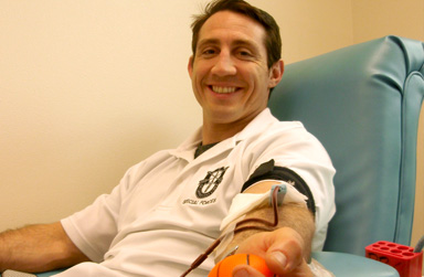 Tim Kennedy, a mixed martial arts champion and Special Forces National Guardsman, happily donates a pint of blood to the Armed Services Blood Program at the Robertson Blood Center, Fort Hood, Texas.